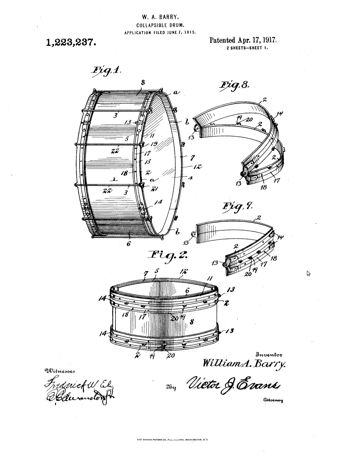 Drawing of a Collapsible drum patent from William A. Barry.